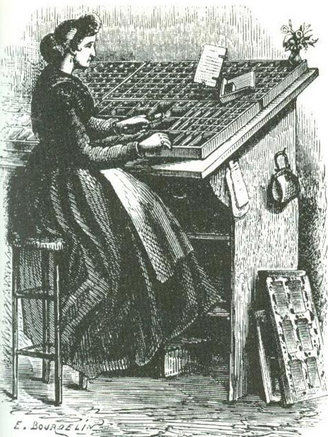 Typesetter.